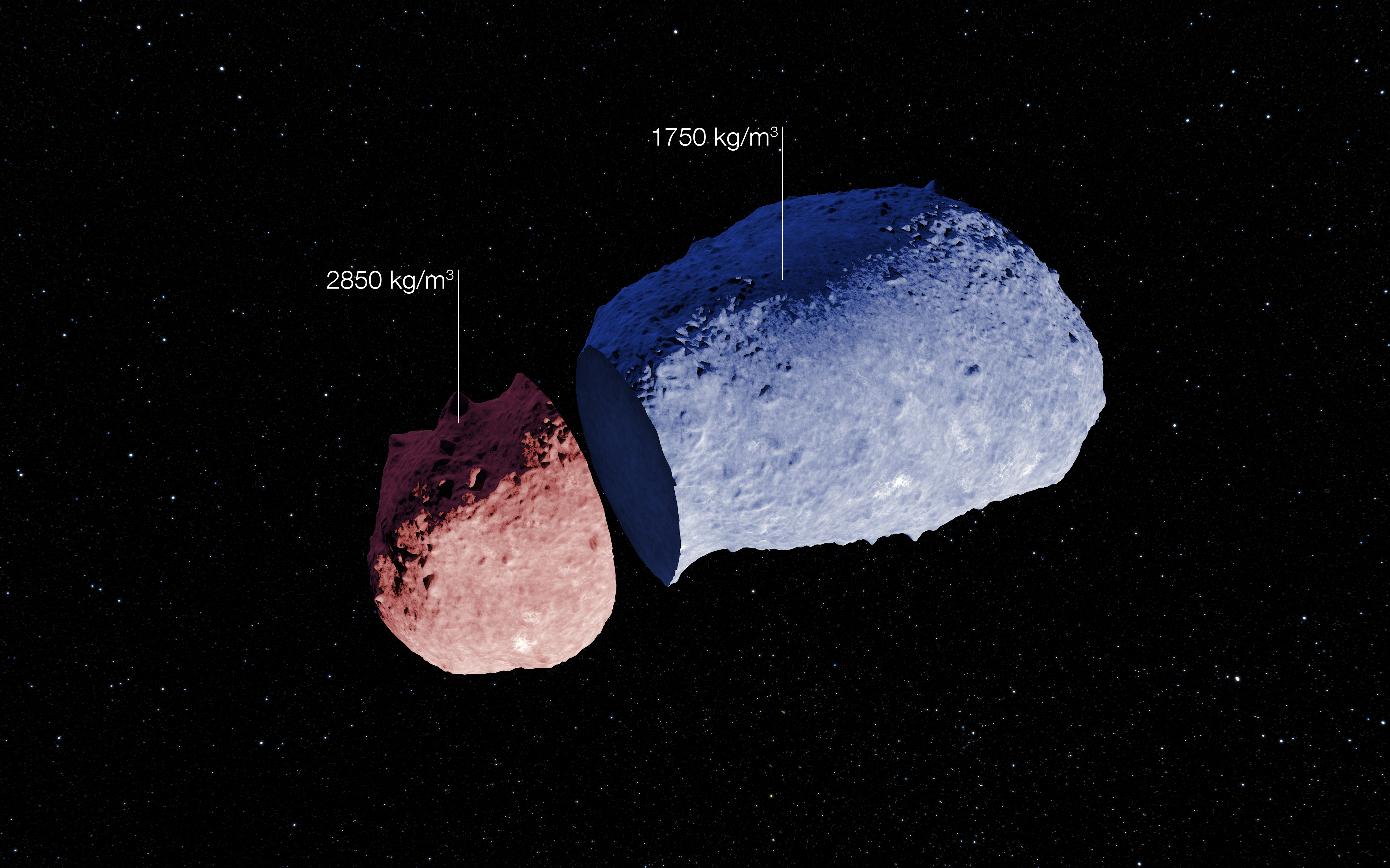 A schematic view of the strange peanut-shaped asteroid Itokawa. By making exquisitely precise timing measurements using ESO’s New Technology Telescope, and combining them with a model of the asteroid's surface topography, a team of astronomers has found that different parts of this asteroid have different densities. As well as revealing secrets about the asteroid’s formation, finding out what lies below the surface of asteroids may also shed light on what happens when bodies collide in the Solar System, and provide clues about how planets form. The shape model used for this view is based on the images collected by JAXA's Hayabusa spacecraft.